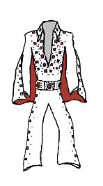 Eyelet (Elvis)